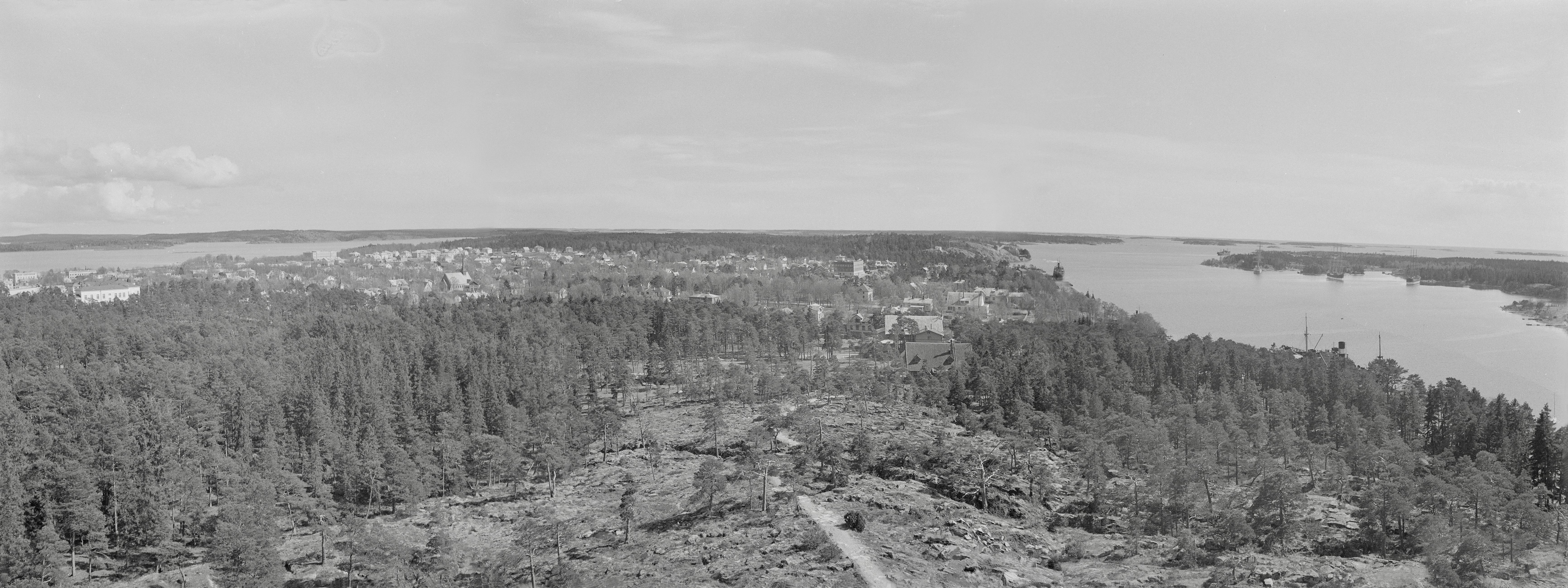 Photographed from Badhusberget, Mariehamn, Åland.